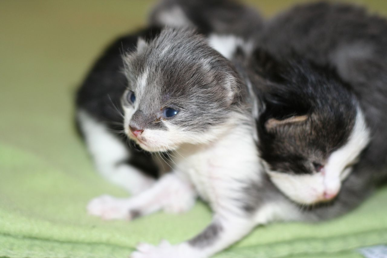 Four ten-day-old kittens.Four small cats